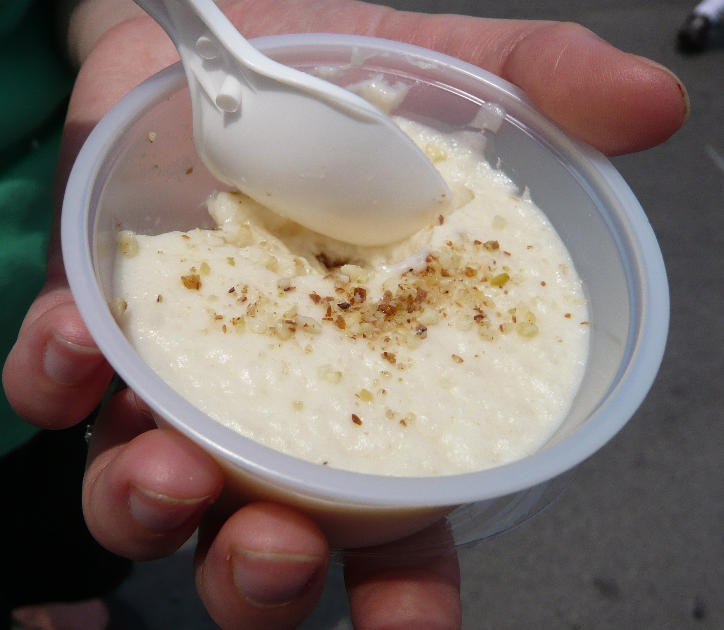 Indian rice pudding, served cold--perfect on a really warm day. Taken at Taste of Buffalo 2008